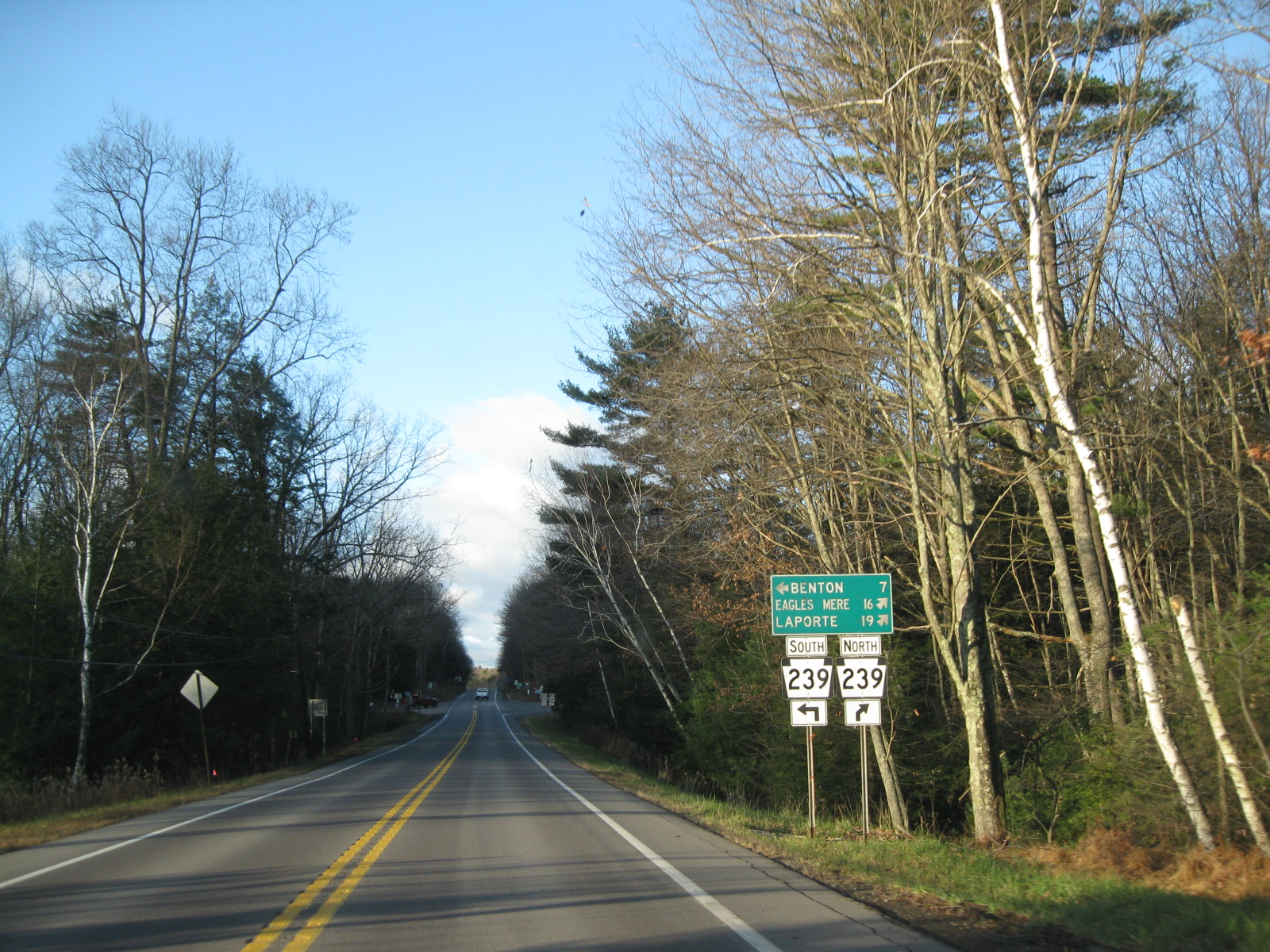 Pennsylvania State Route 118 at its junction with State Route 239 in Jordan Township, Lycoming County.